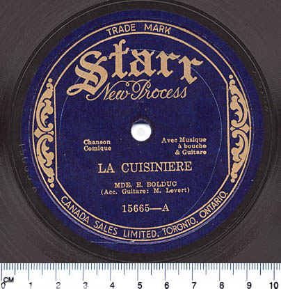 Record of La Cuisinere by La Bolduc